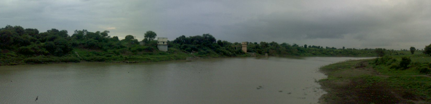 dhupeshvar, panoramic, 3 photos